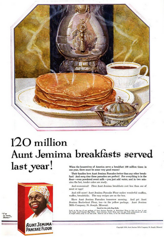 "Woman's Home Companion" 1919 advertisement